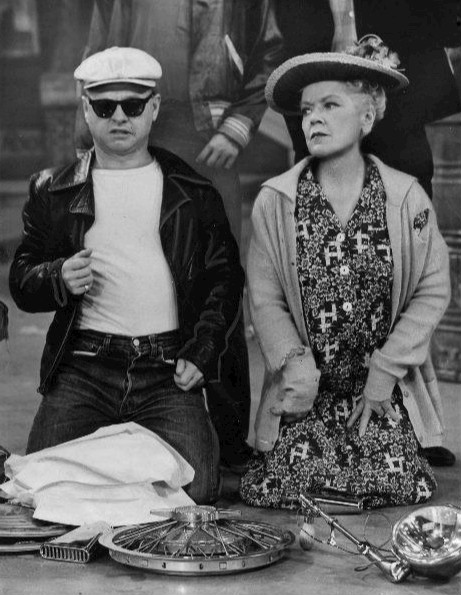 Promotional photo of Mickey Rooney and Spring Byington from the television program December Bride. In this episode, guest star Rooney teams up with Lilly (Byington)to stage a crap game to trap those who burgled his home.